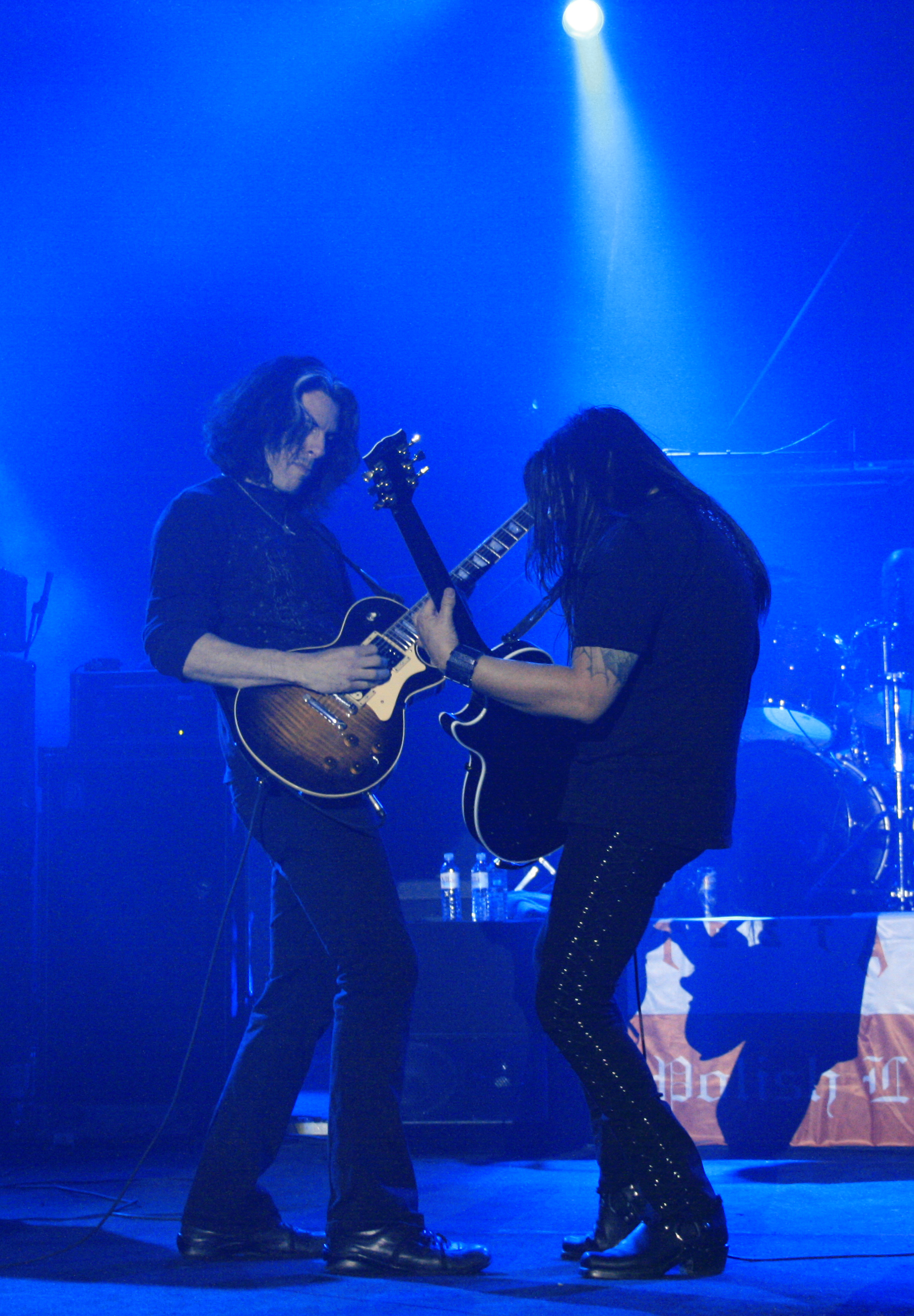 Alex Skolnick and Eric Peterson from Testament during Metalmania 2007 festival